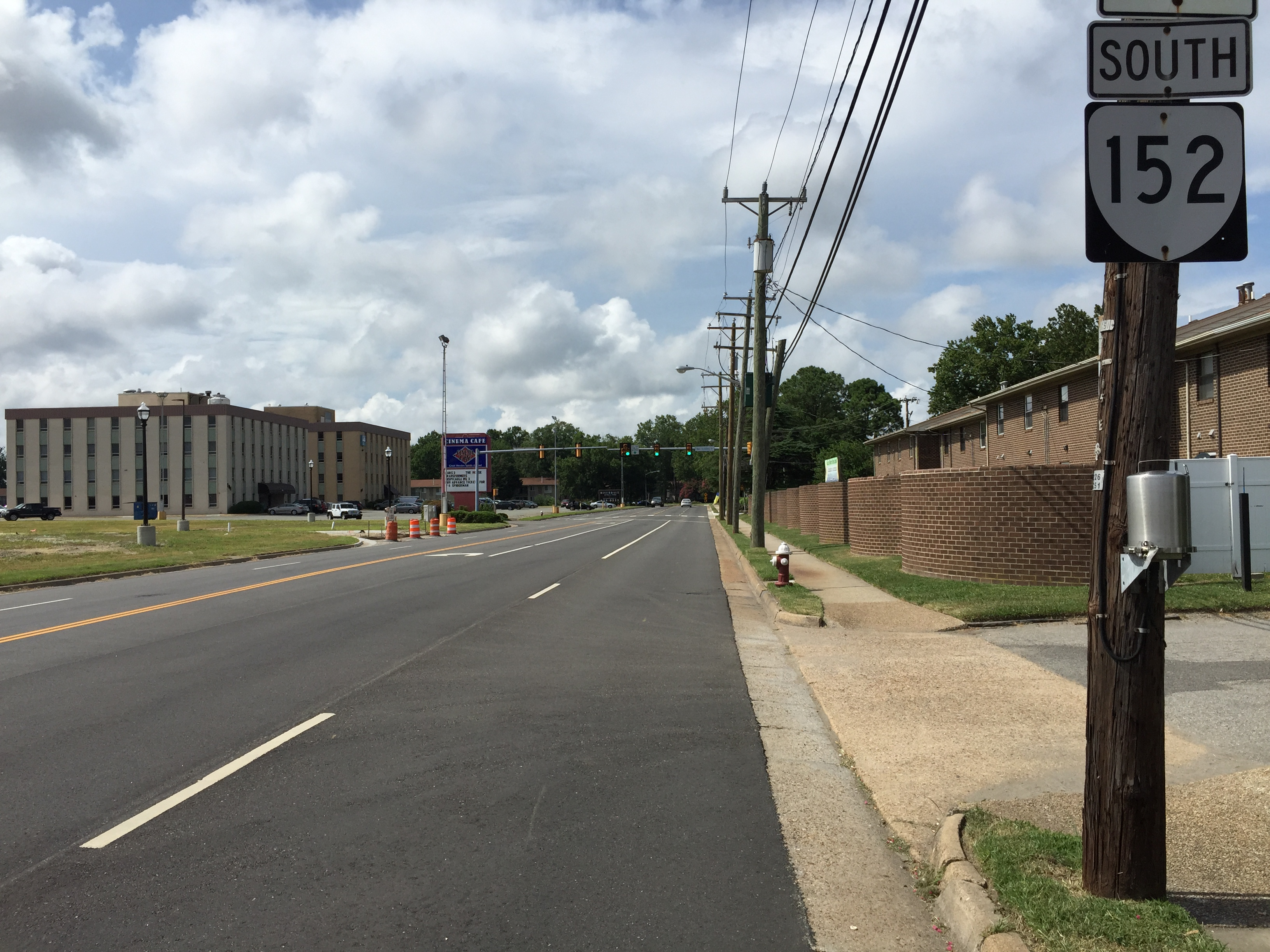 View south along Virginia State Route 152 (Cunningham Drive) at U.S. Route 258 (Mercury Boulevard) in Hampton, Virginia